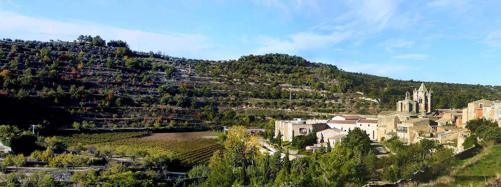 Monasterio de Santes Creus is a Cistercian monastery in the municipality of Aiguamúrcia, Catalonia